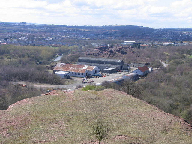 Former Broxburn Shale Oil Works Taken from the top of the tip comprising the waste rock from which the oil has been extracted, the surviving buildings of the former shale oil works, now known as Albyn Industrial Estate, are in the middle of the picture, with the villages of Broxburn and, to the right, Uphall beyond and some of the buildings of Livingston New Town visible on the far skyline.